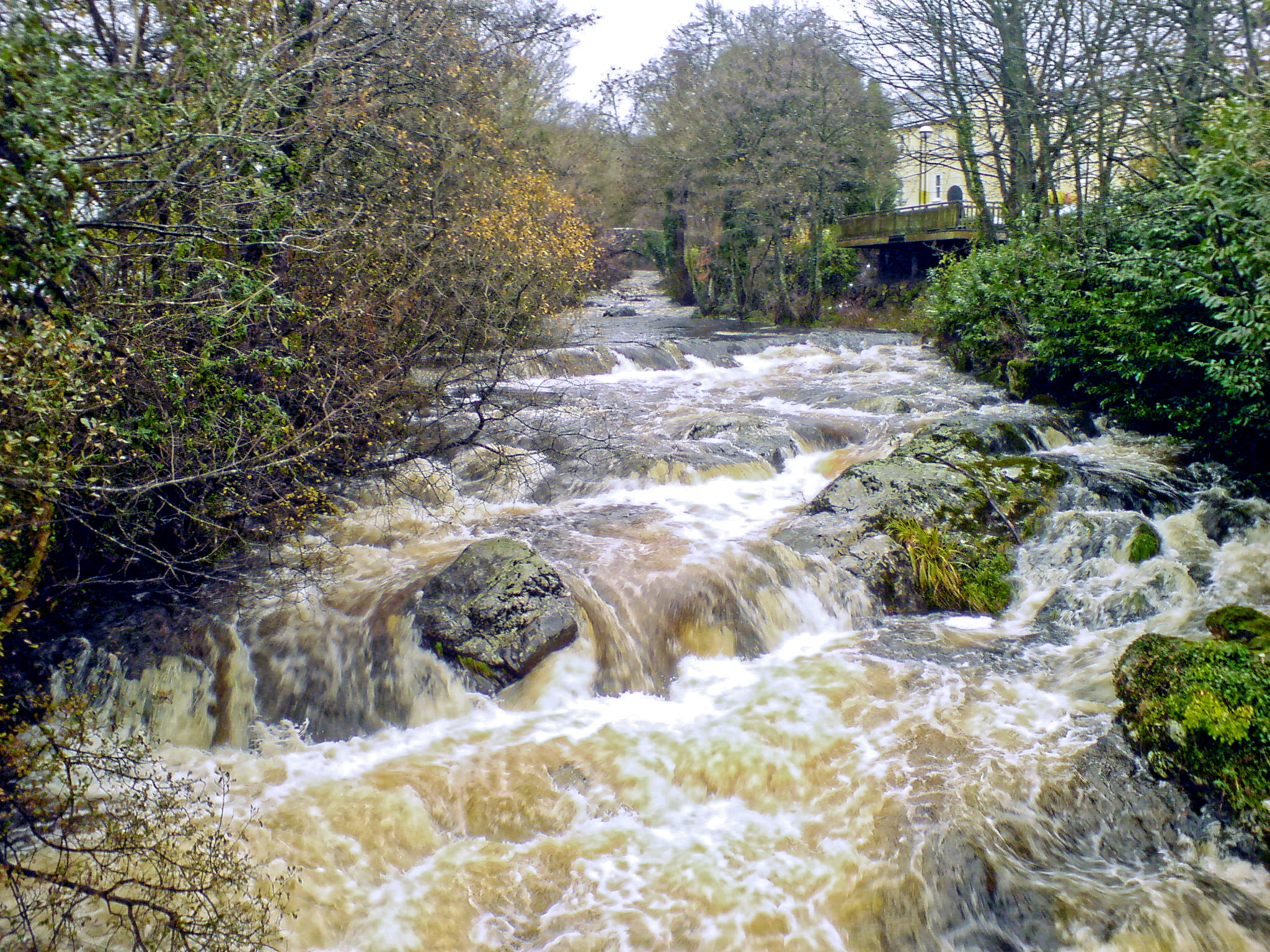 Author: Jamsta